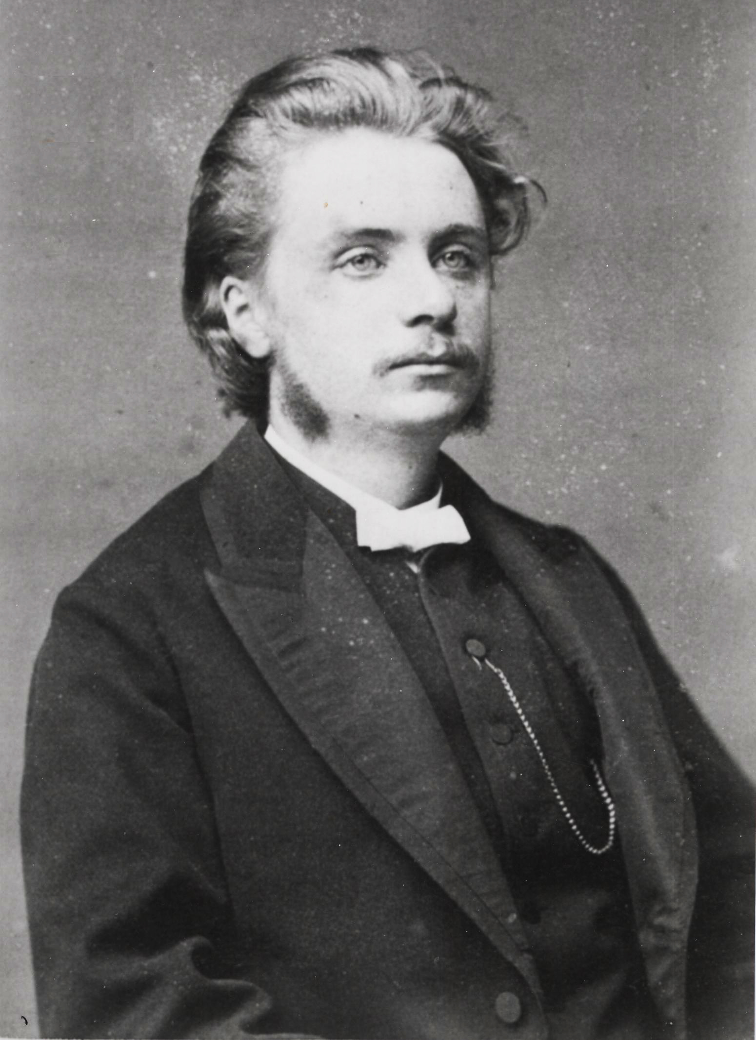 Artist: Claus Knudsen Date/place: ca. 1866, Kristiania (Oslo)/Norway Subject: Edvard Grieg Medium: photographic positive, B&W Notes: original belongs to the Norwegian Music Collection Persistent URL: [#//nettbiblioteket.no/grieg-samlingen/engelsk/grieg_intro_eng.html? Edvard Grieg Archives at Bergen Public Library]